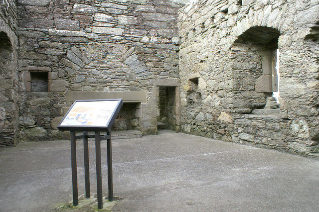 Main hall of Muness Castle On the roofless upper floor.